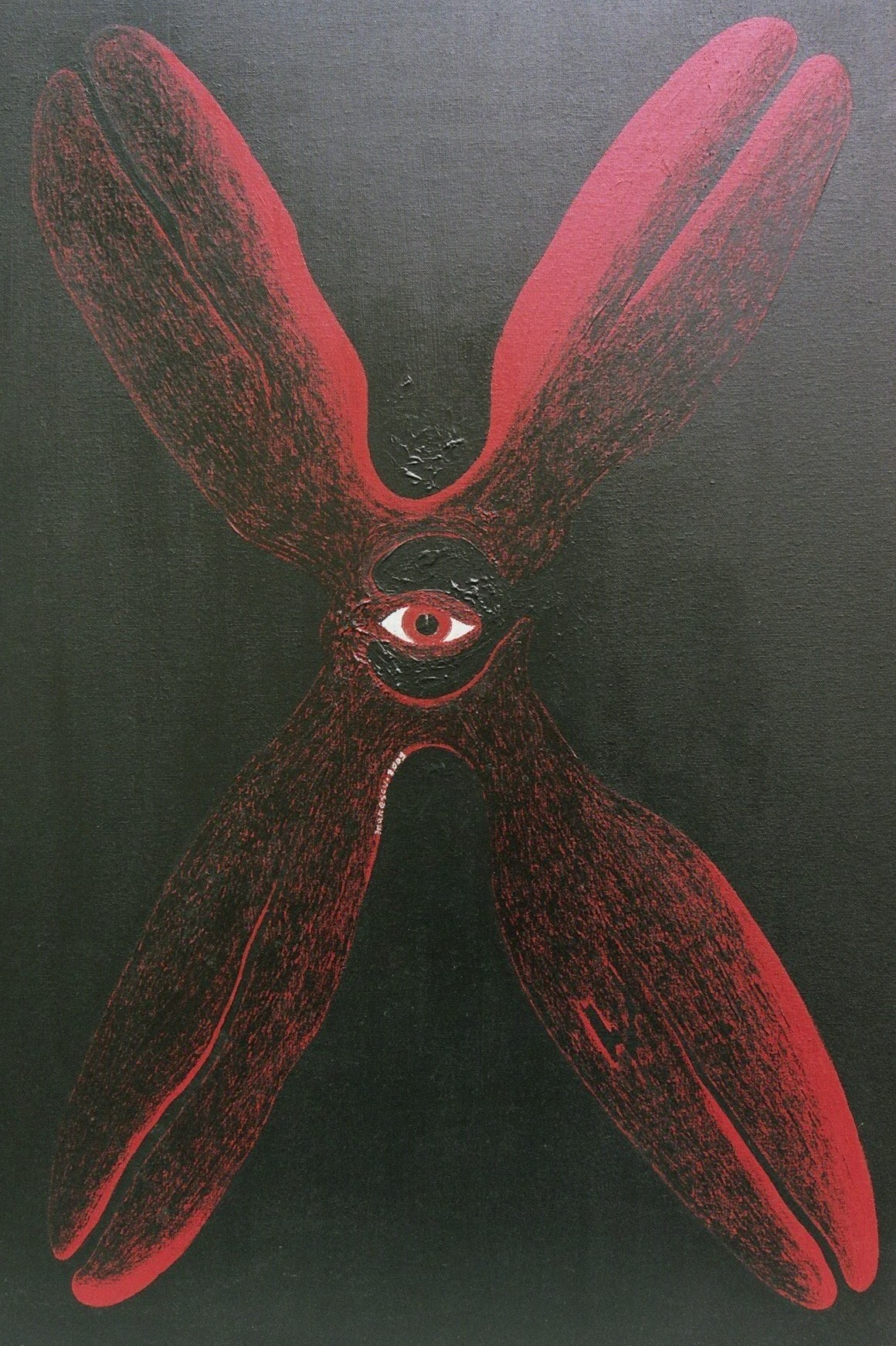 " Red IT-MUON" (Seeing Red Muon)a Dan Pero Manescu conceptual painting (Quantum-Art), acrylics and wax oil on canvas, 60 x 90 cm